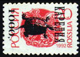 Karelia cinderellastamp, 1000r.